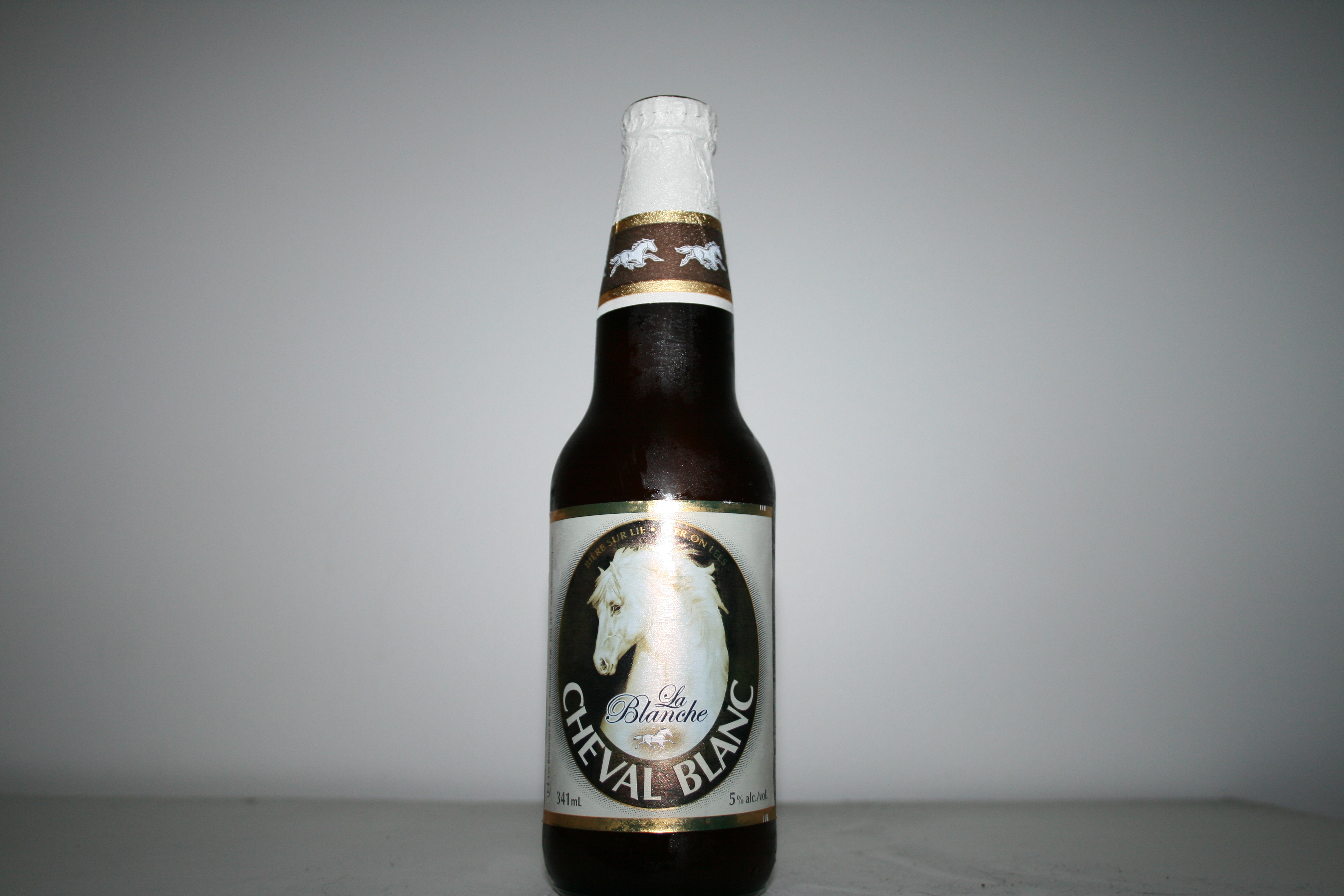 Cheval Blanc beer from Brasserie RJ.